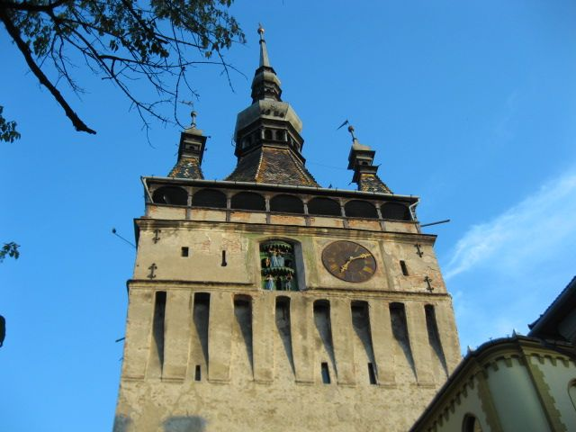 Courtesy of